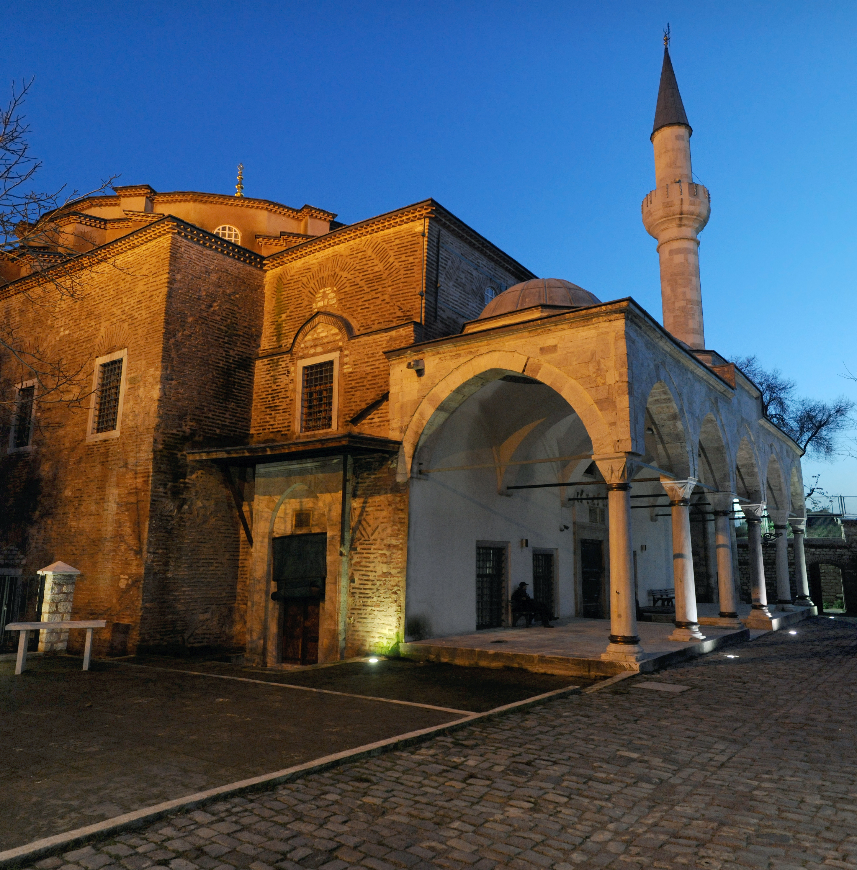 Built AD 527 by the Emperor Justinian as the Church of Saints Sergius and Bacchus, Constantinople. Currently in use as the Kucuk Ayasofya Mosque, Istanbul Turkey.